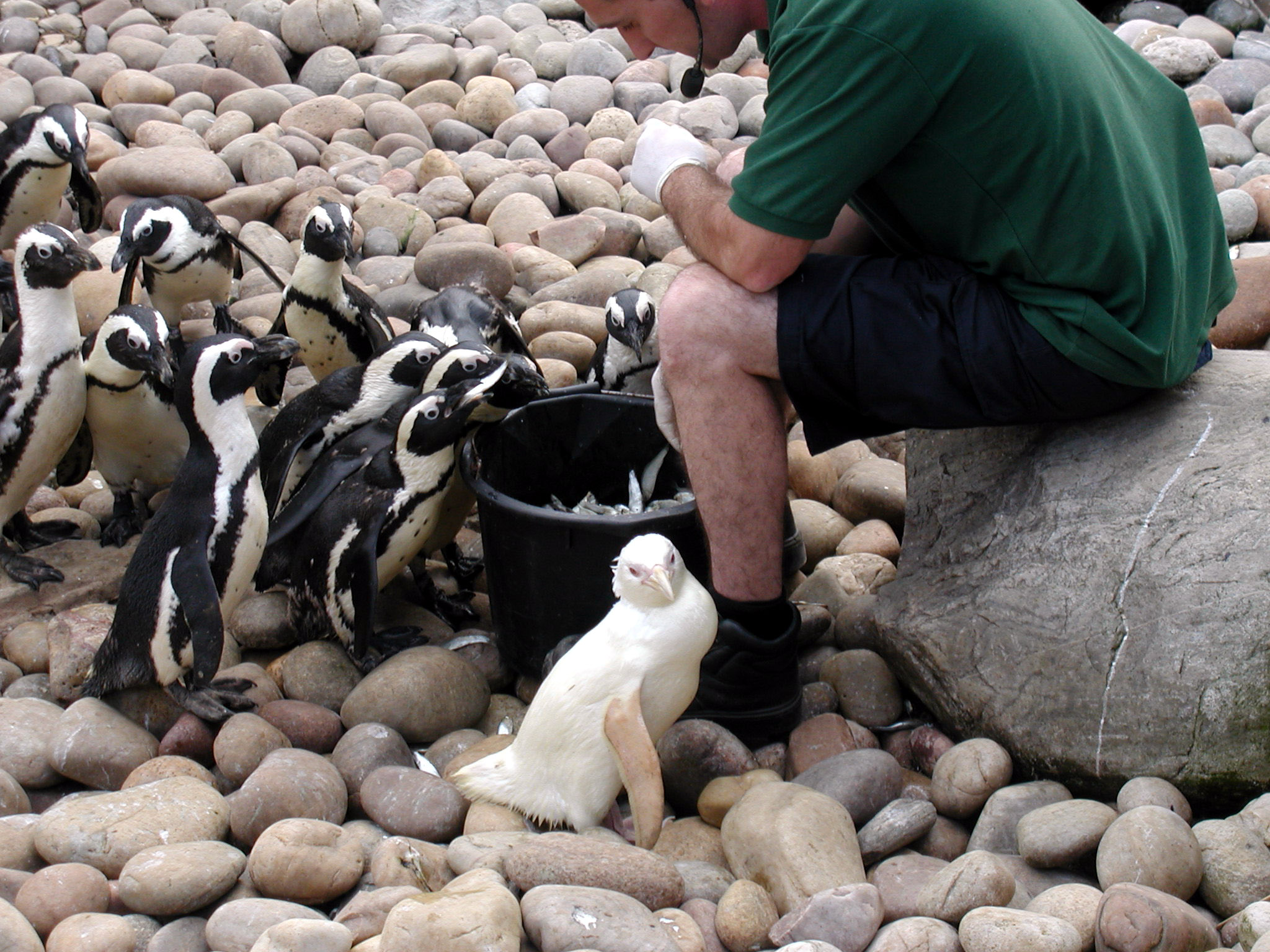 African Penguins in Bristol Zoo. Snowdrop, an albino African Penguin, born in Bristol Zoo, Bristol, England. The keeper said that the other African penguins seemed unaware of Snowdrop’s special colour. Snowdrop died in August 2004.